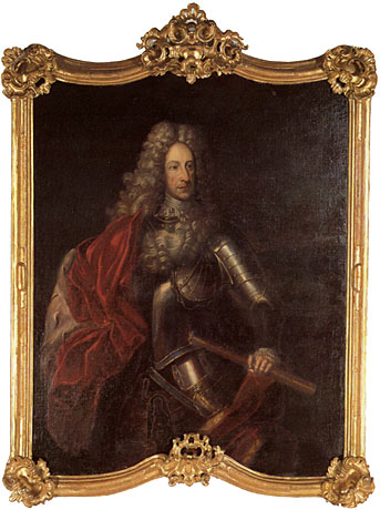 Louis William, Margrave of Baden-Baden (1655–1707), margarve of Baden, field marshal of Holy Roman Empire, victorious fighter agains the Ottoman Empire